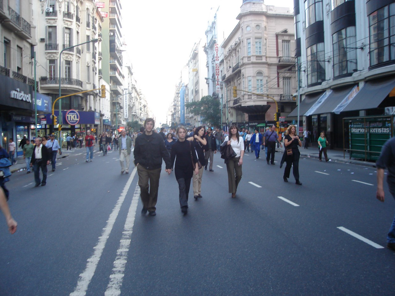 Demonstrators walking home along Callao Avenue, north of Congress. Buenos Aires.